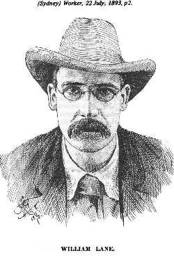 William Lane, Australian Labour organiser